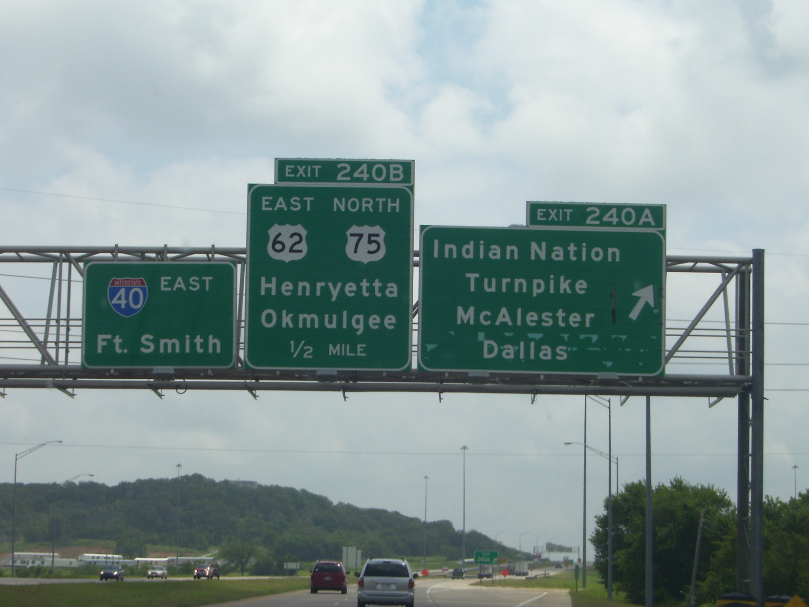 Exit sign on I-40 for the southbound Indian Nation Turnpike in Henryetta. The U.S. 62/75 exit also leads to the west terminus of U.S. 266.